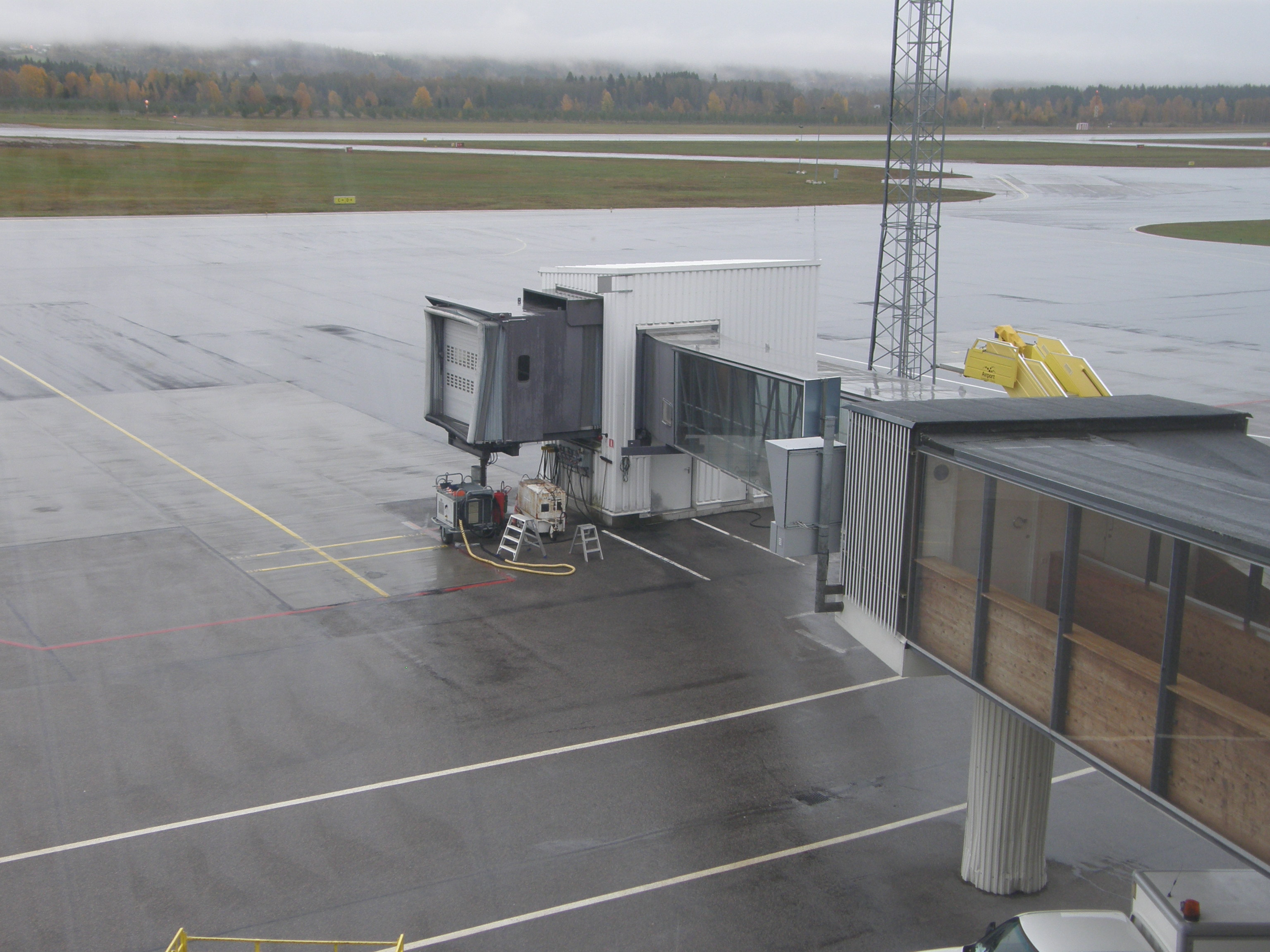 Sundsvall-Timrå Airport, Sweden